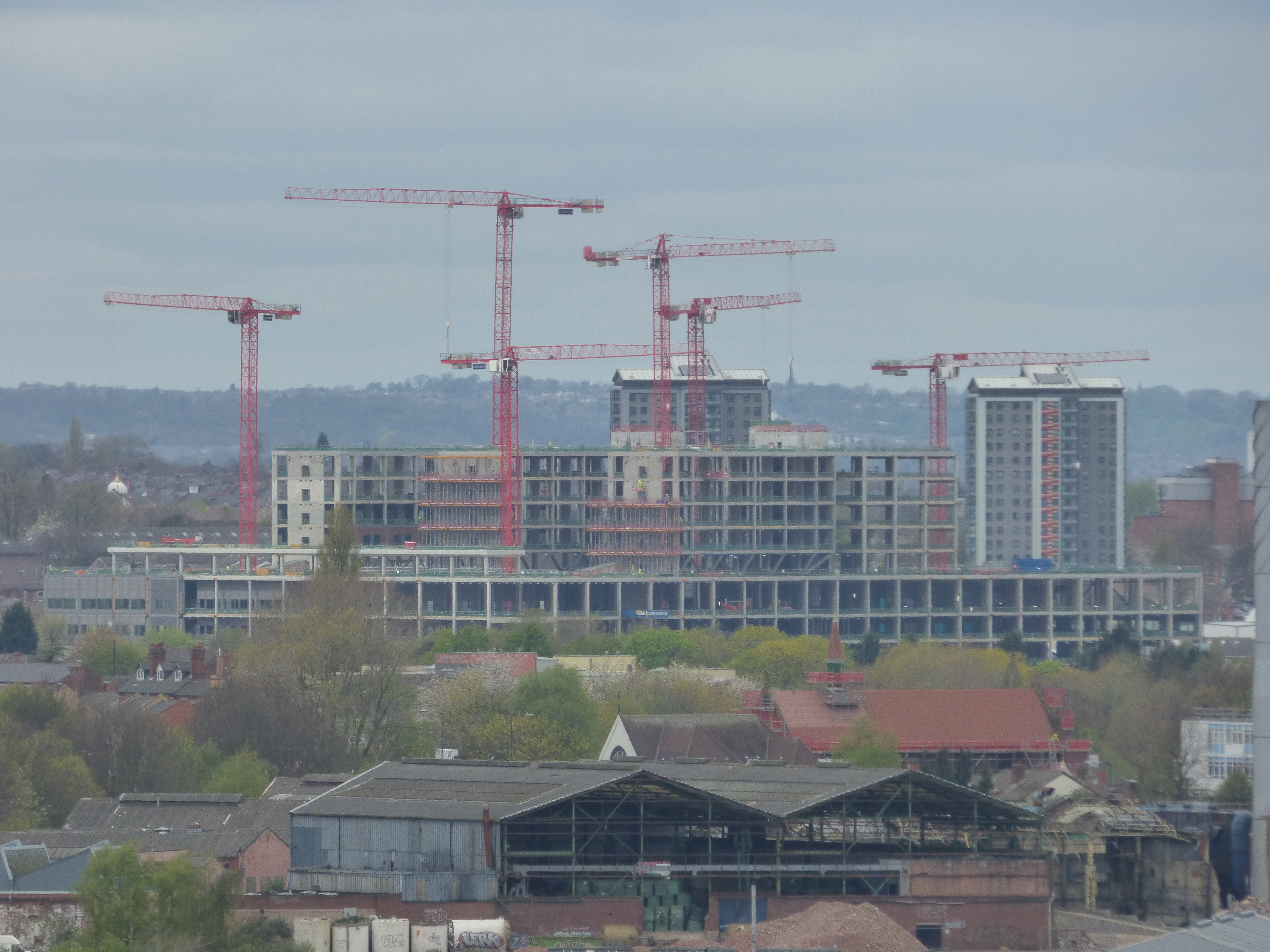 From the Secret Garden at the Library of Birmingham - Midland Metropolitan Hospital